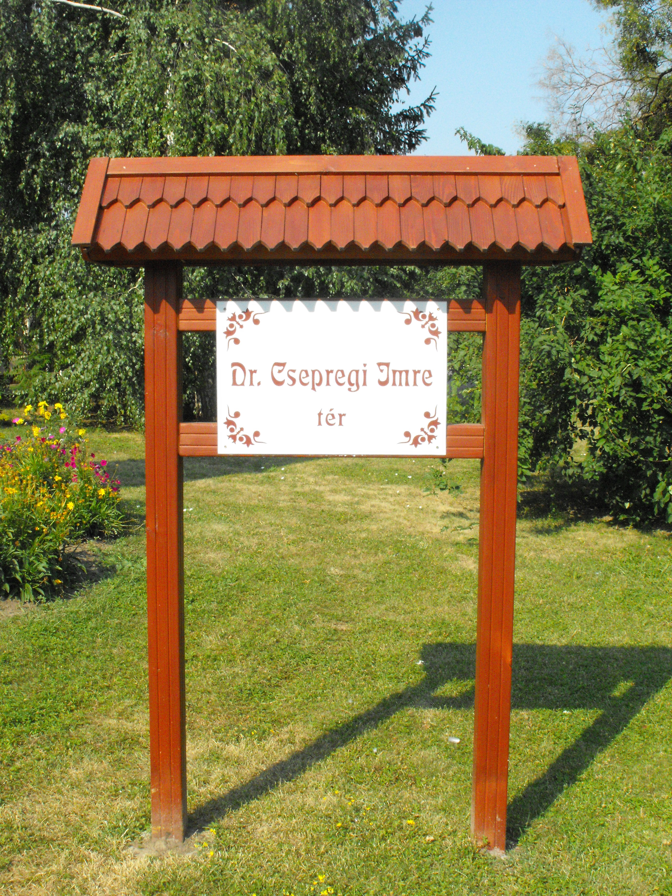 Street sign in Elek, Hungary marking Imre Csepregi Square.